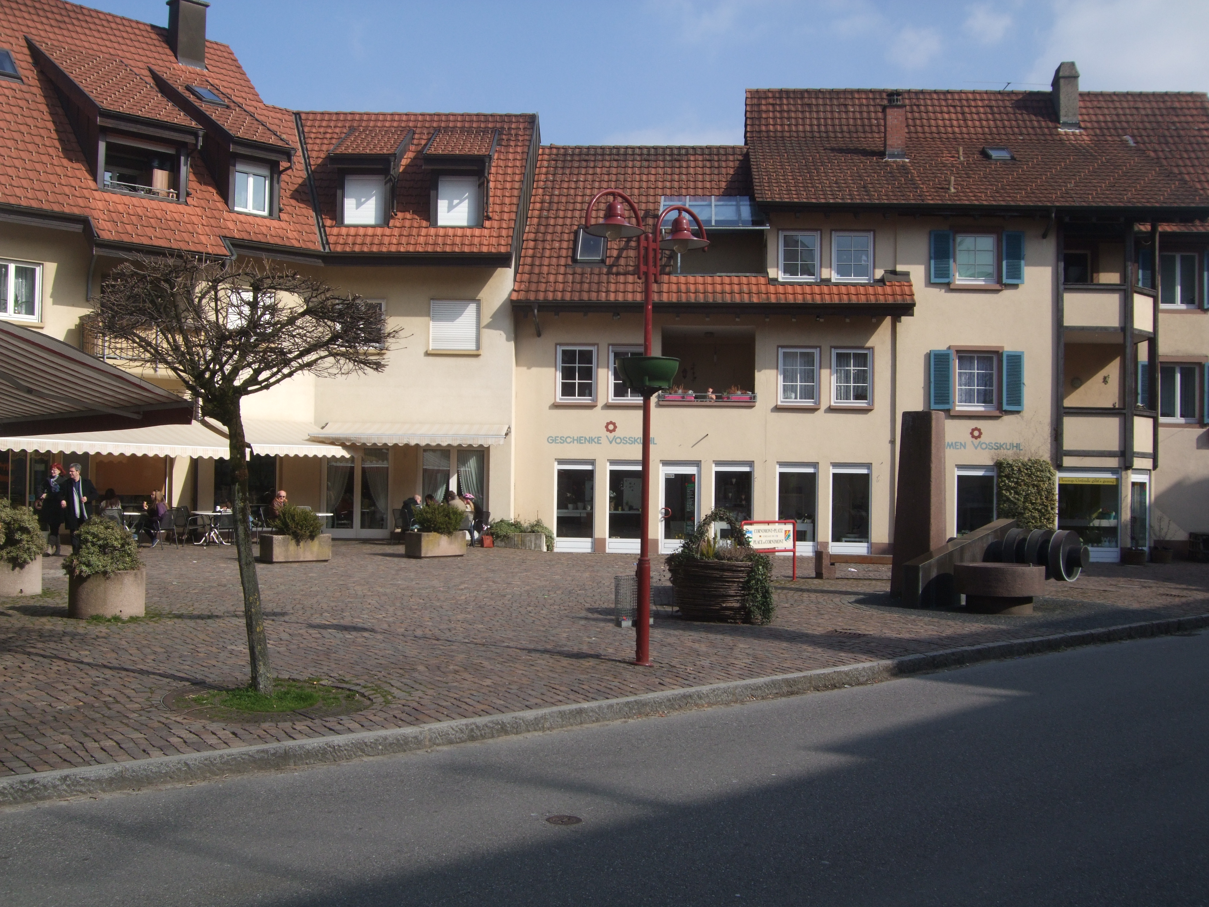 The Cornimont-Square in the center oft the village Steinen. The square is named after the twin town Cornimont in France.